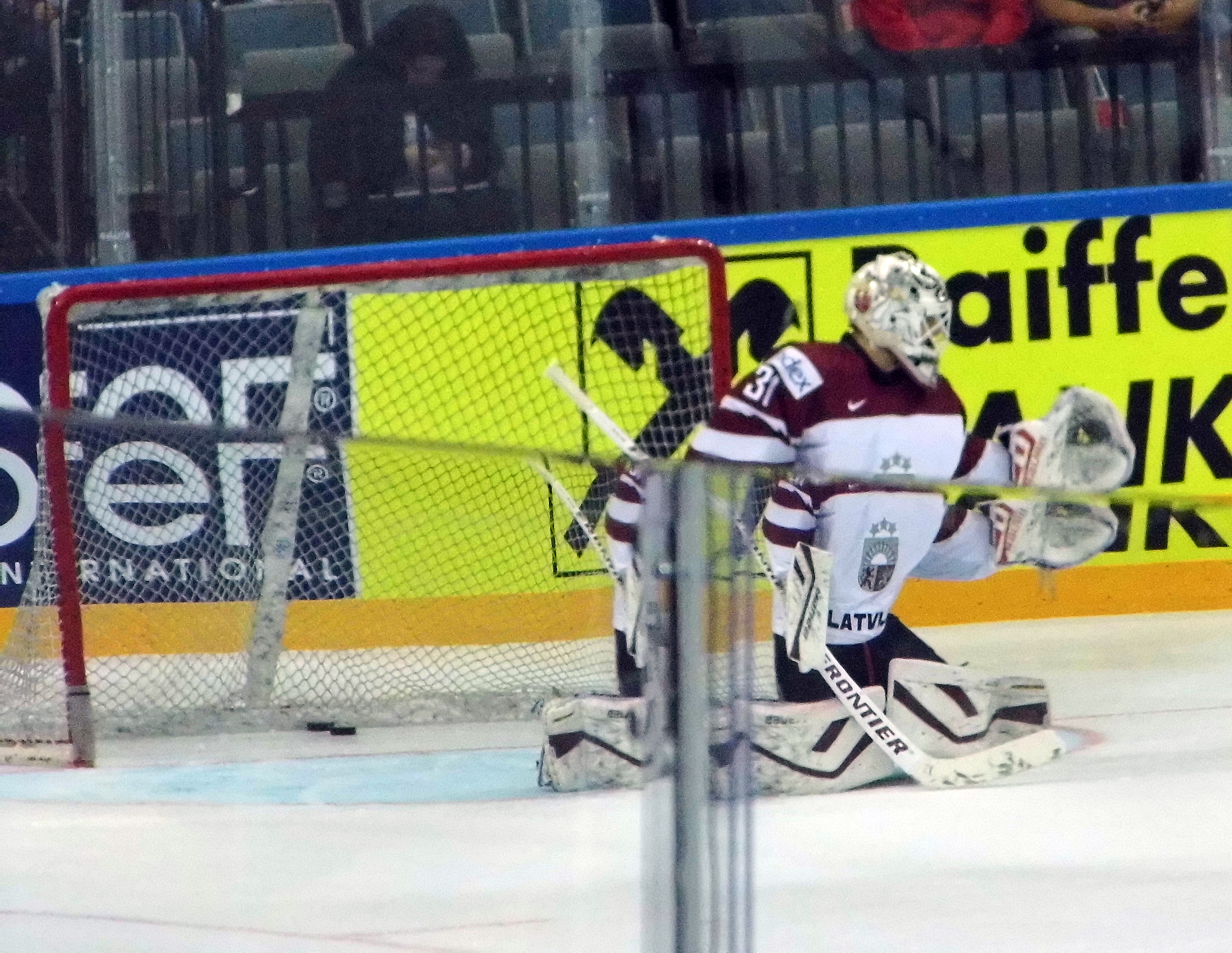 IIHF World Championship 2015. Latvia vs Sweden. Prague, Czech Republic